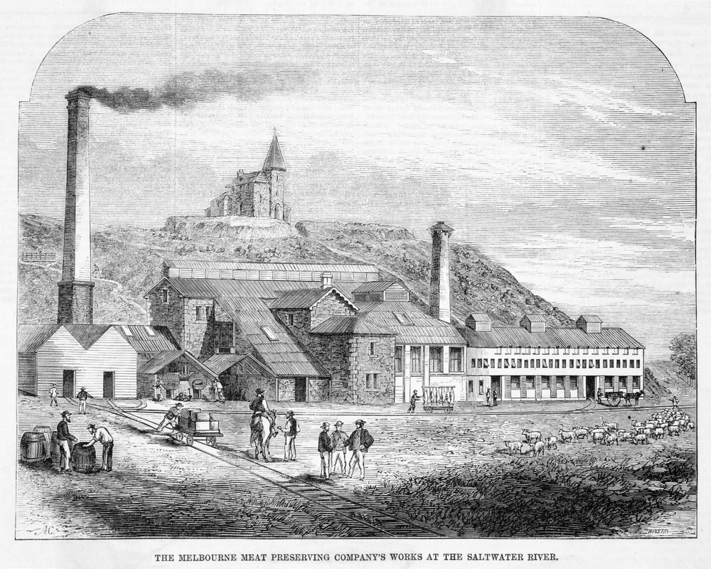 Photograph of meat preservation being carried out on Saltwater River Pipemakers Park